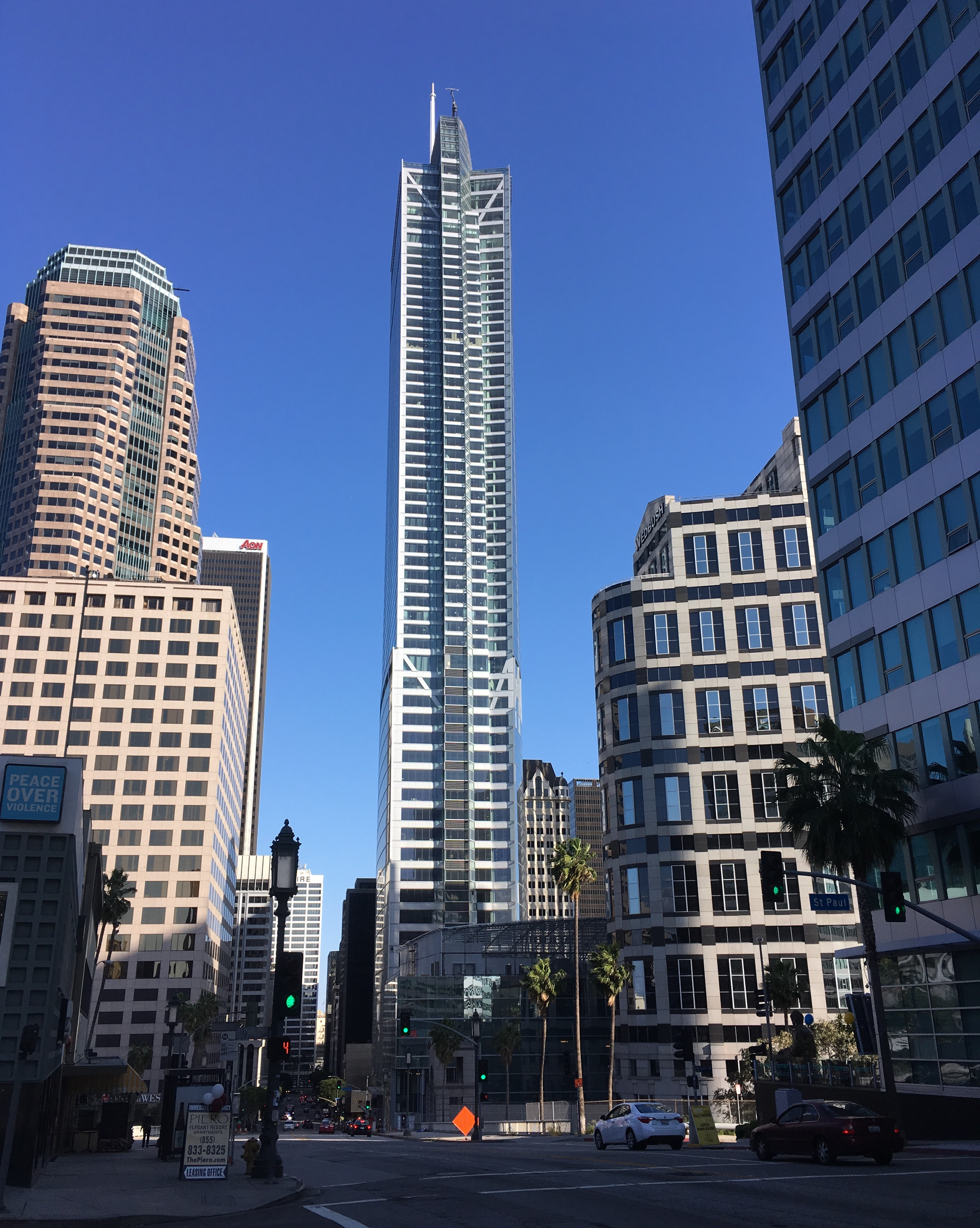 Street view of the Wilshire Grand Tower, 8 April 2017